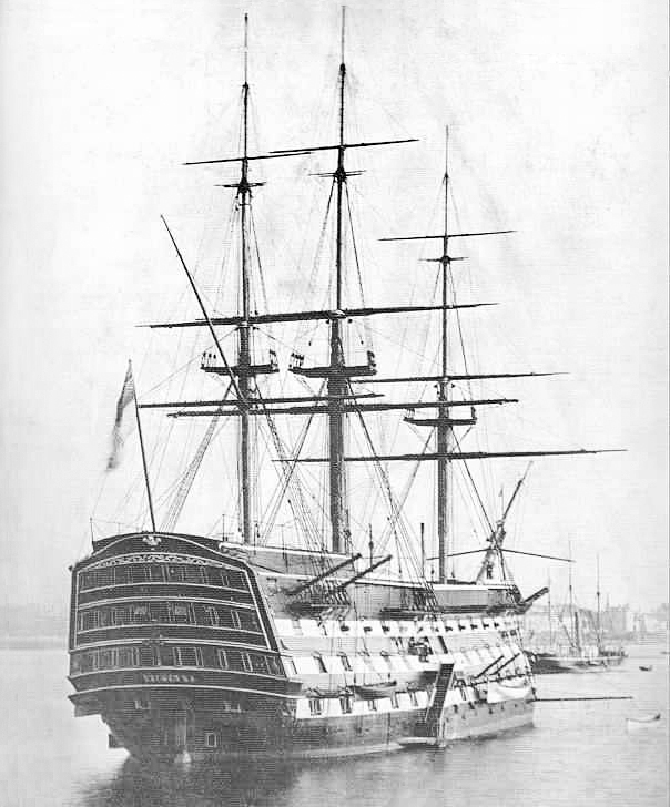 HMS Victory, photographed at Portsmouth in 1884.